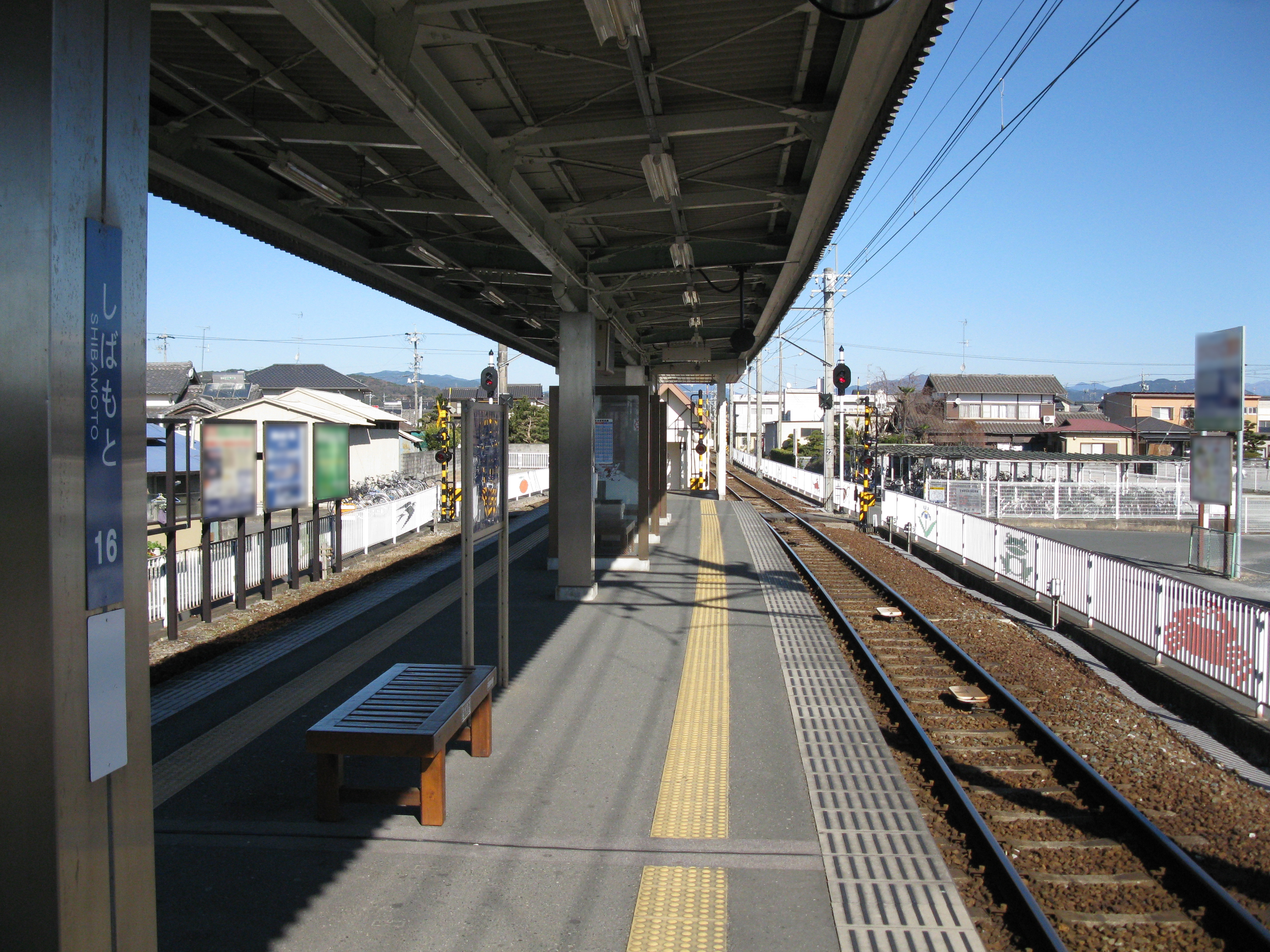 Enshū-Shibamoto Station platform (Enshū Railway Line)